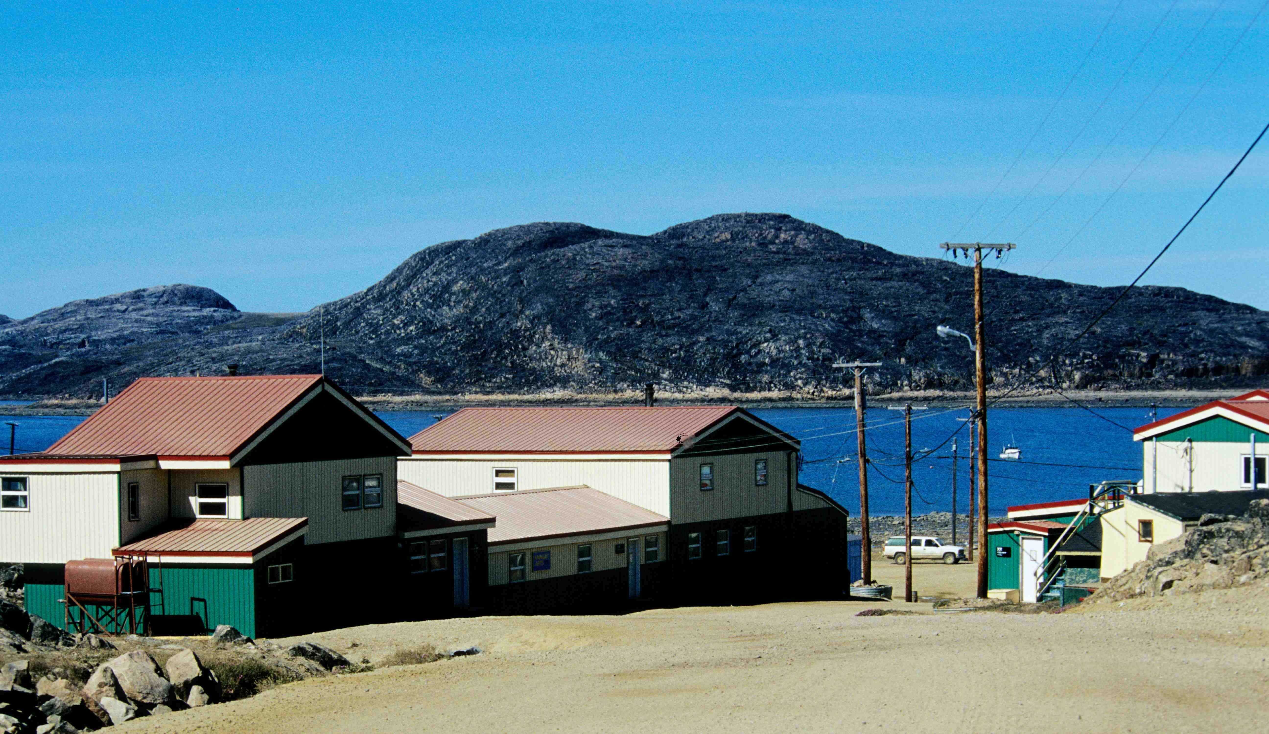 West Baffin Eskimo Cooperative Cape Dorset (printshop & other buildings)